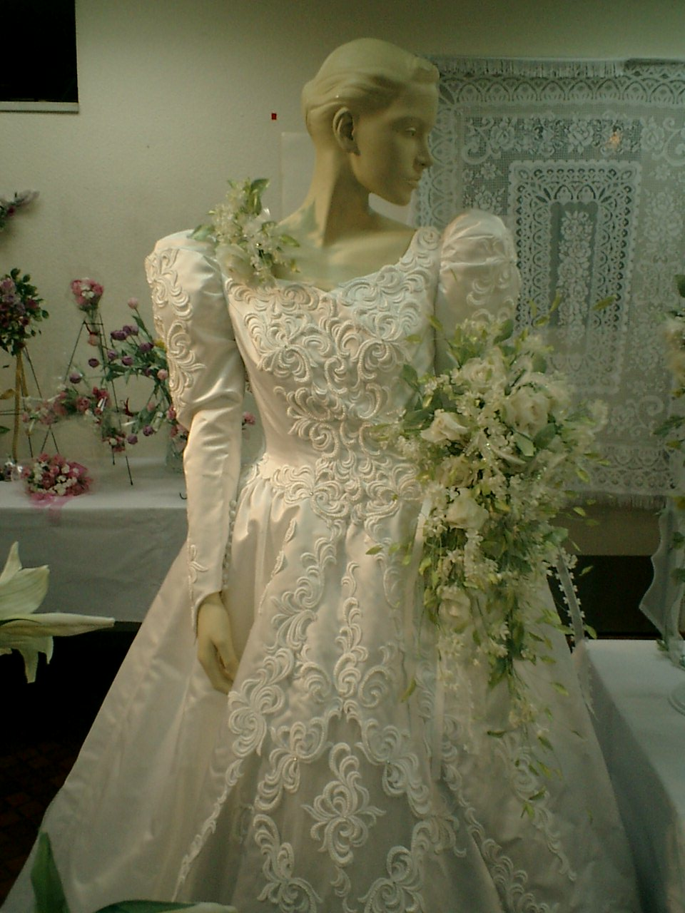 Wedding_Dress, Hallo Inada at Inada Plus Road（Shopping street） The display of the flower art exhibition